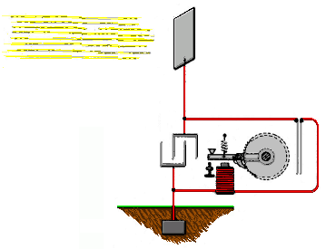 photoelectric_effect - Tesla patent - small PNG See also: Image:PhotoelectricEffect(Tesla-small).PNG Patent number: US 685,957 - Apparatus for the Utilization of Radiant Energy - 1901